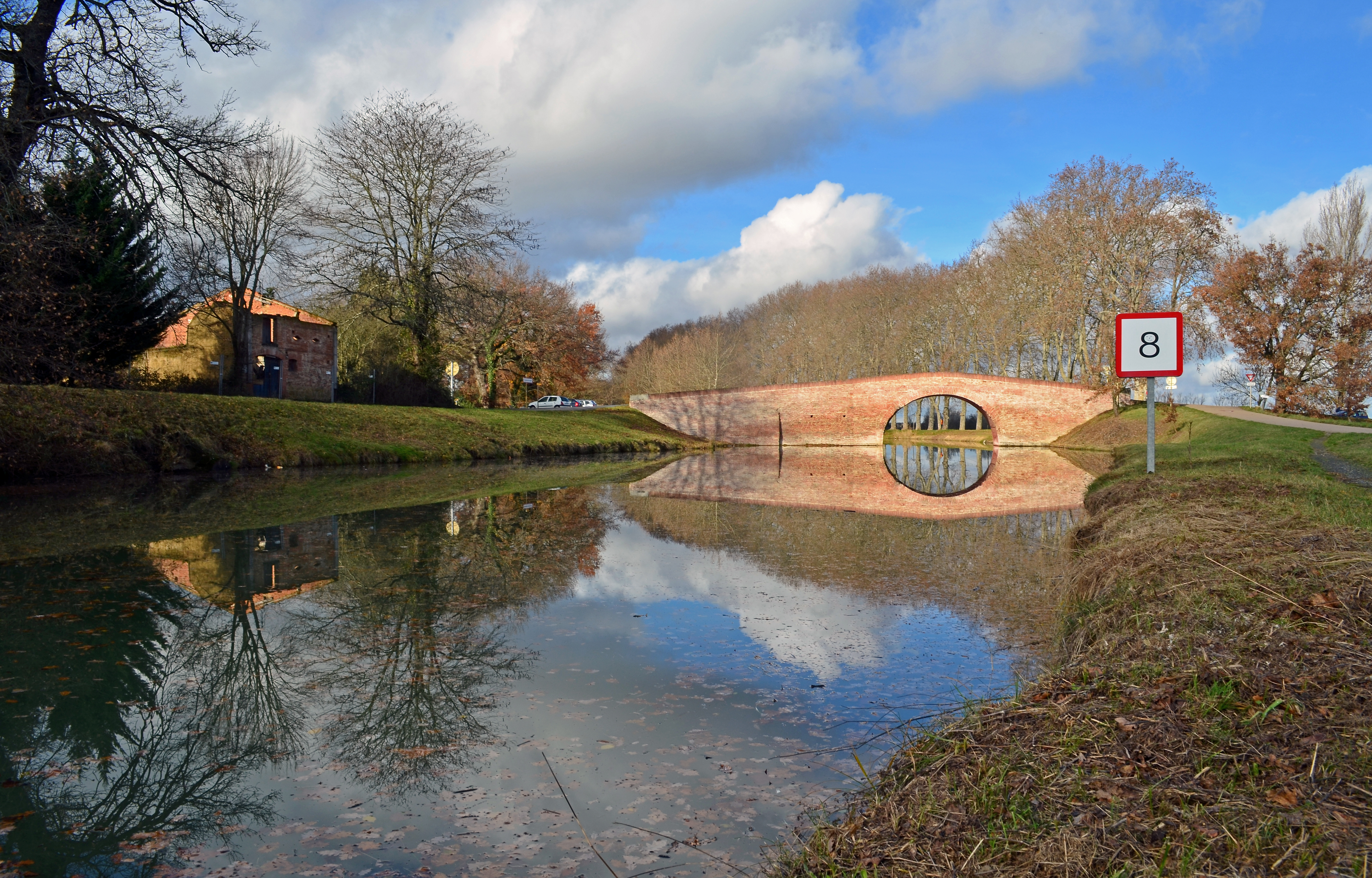 Bridge of Deyme, Canal du Midi - Pompertuzat (Haute-Garonne) .